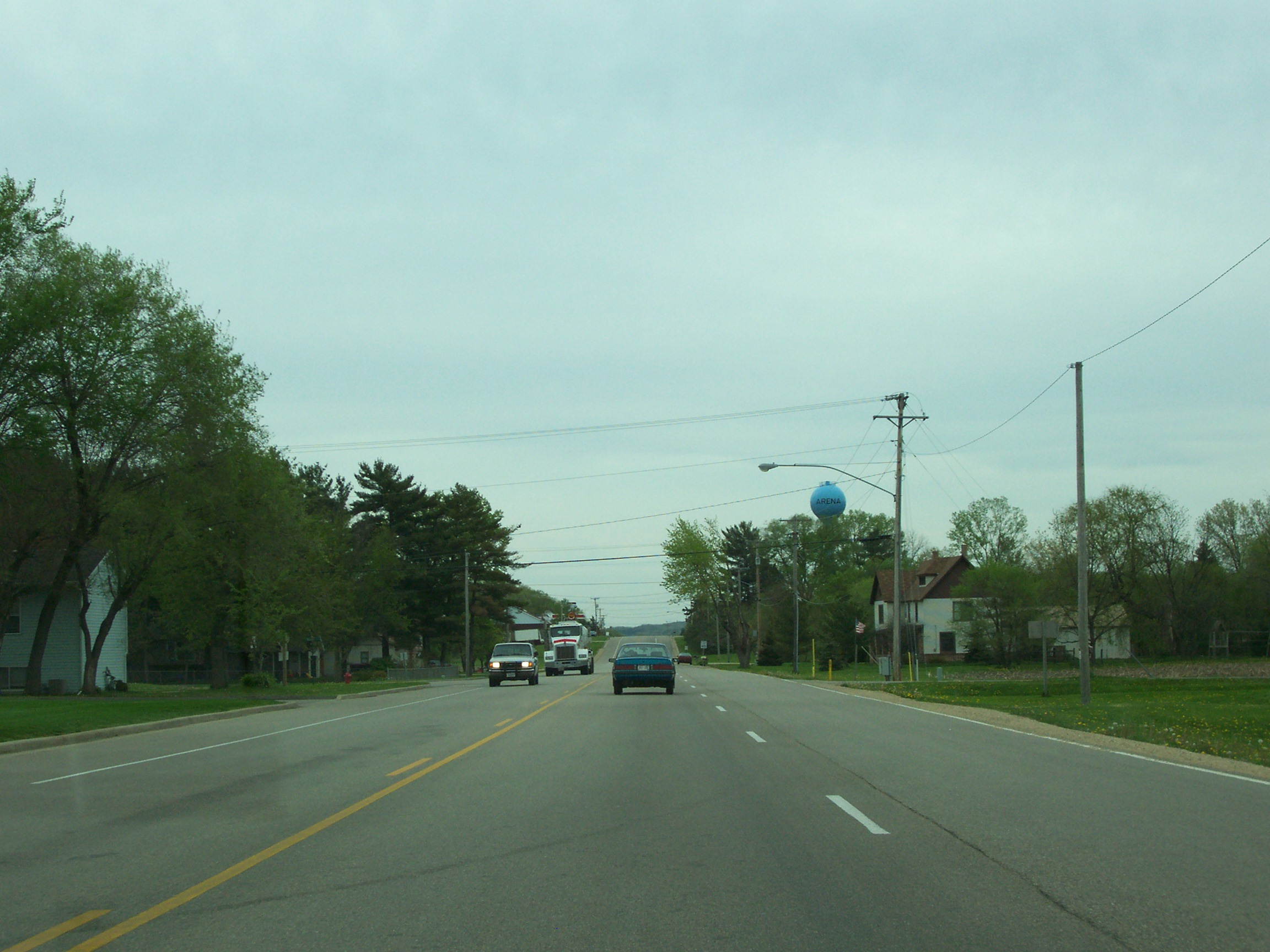 Looking east at Arena, Wisconsin, USA while traveling on U.S. Route 14.